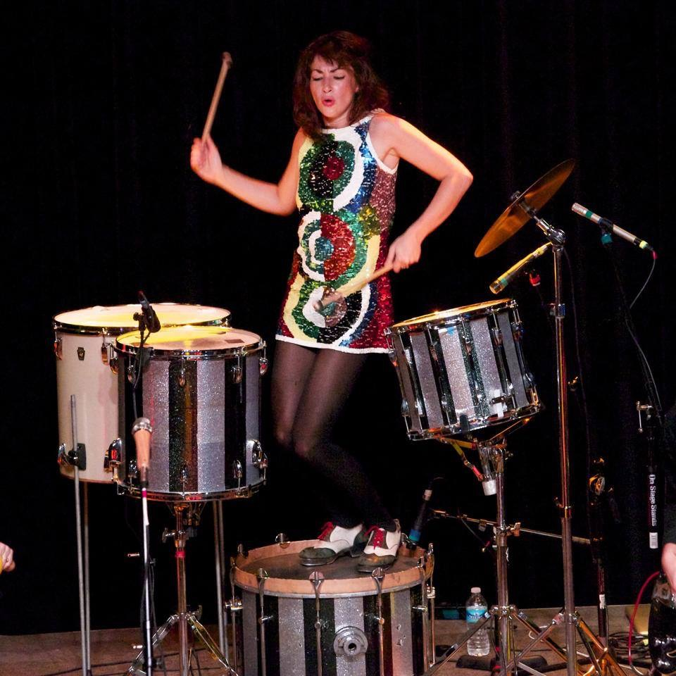 Brown performing on tour, 2014.